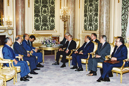 TOKYO. A meeting with representatives of the Association of Japanese MPs “For Friendship with Russia” led by its head, former Foreign and Finance Minister Hiroshi Mitsuzuka.